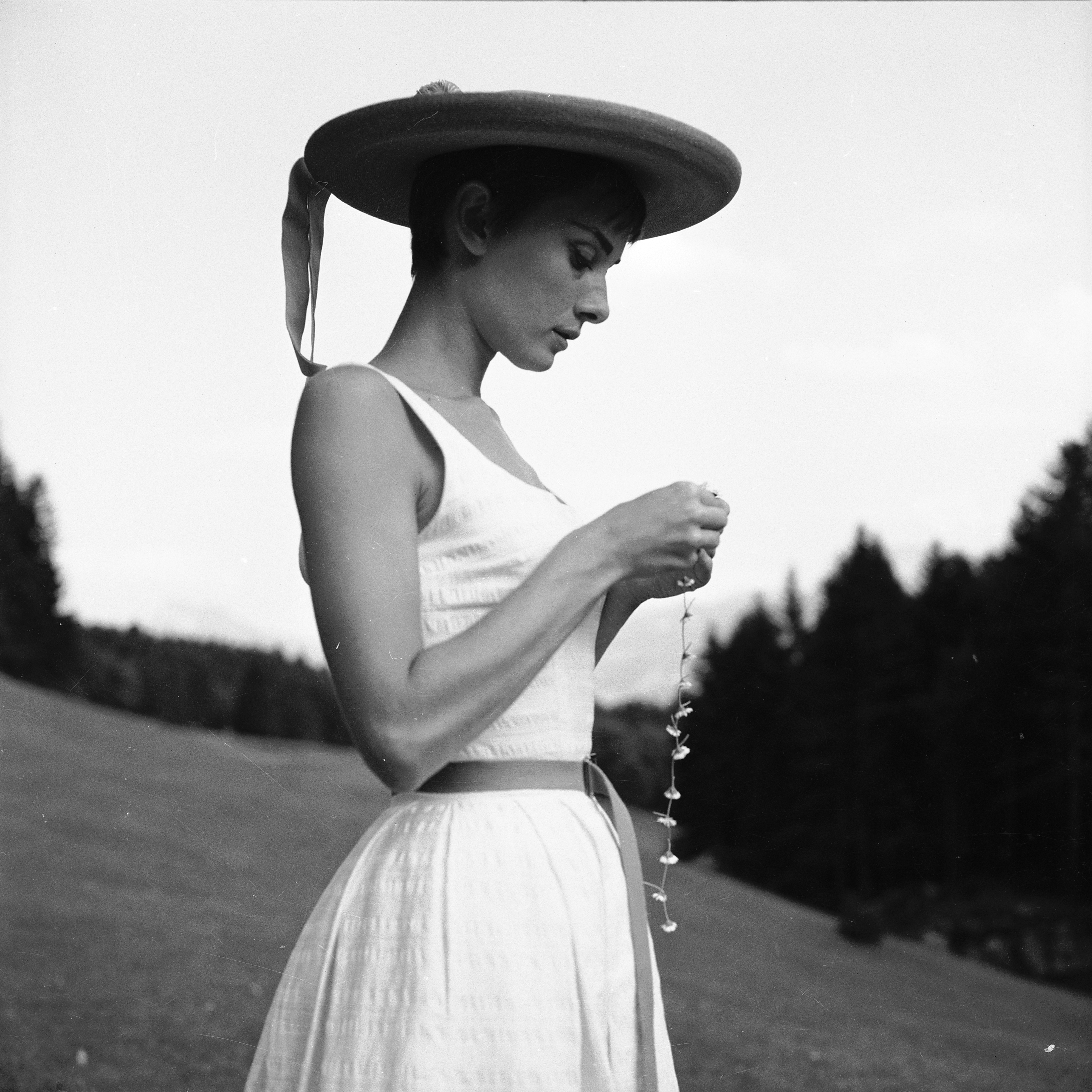 Audrey Hepburn, Bürgenstock, Switzerland